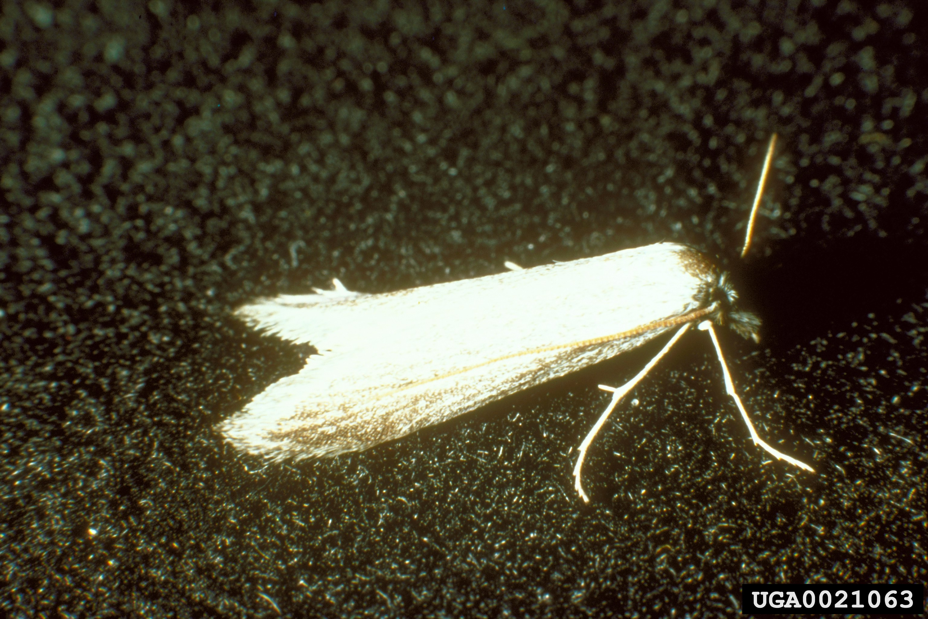 Pterolonche inspersa